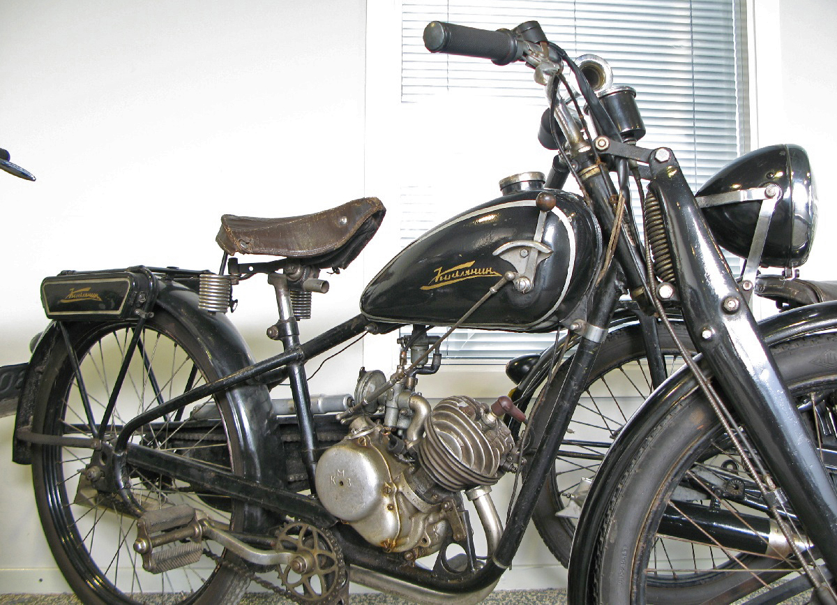 Motorcycle K1B, Riga Motor Museum